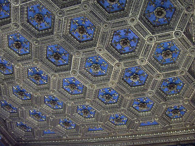 Ceiling with lilies, symbol of the French Crown and House of Anjou; Sala dei Gigli, Palazzo Vecchio, Florence, Italy Own photo - photo made on 13 October 2005